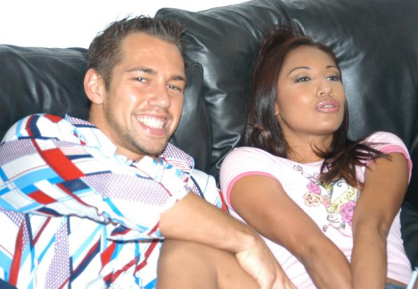 Johnny Castle, Jasmine Byrne on set Britney Rears 3 From X-Play/Hustler Video